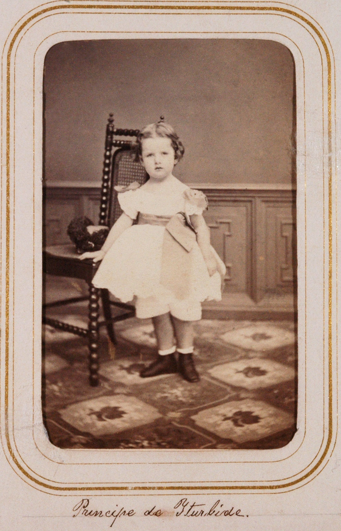 Picture of Angel Iturbide y Green. Prince of Mexico,dressed like a girl.